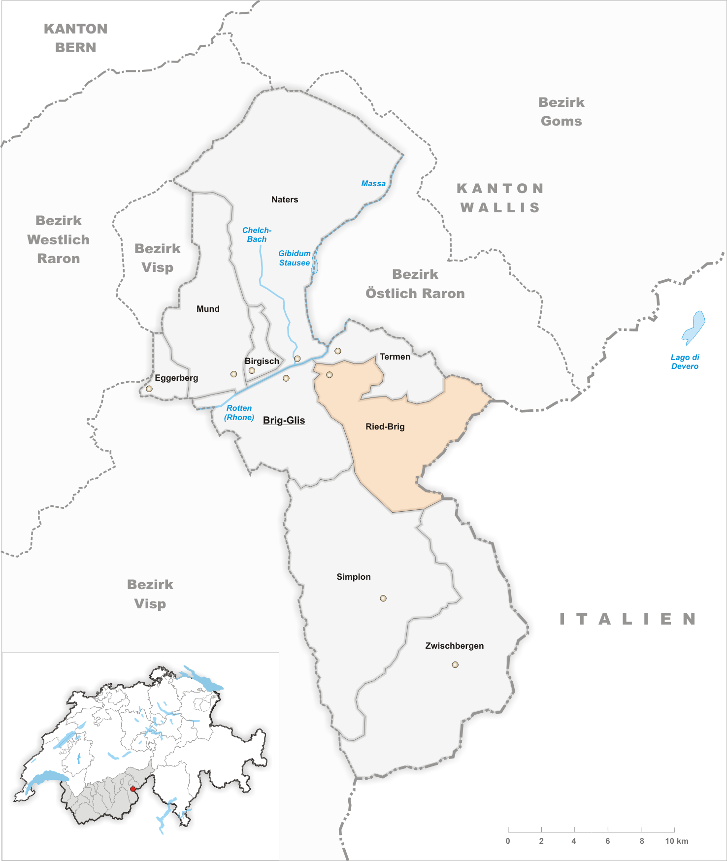 Municipality Ried-Brig